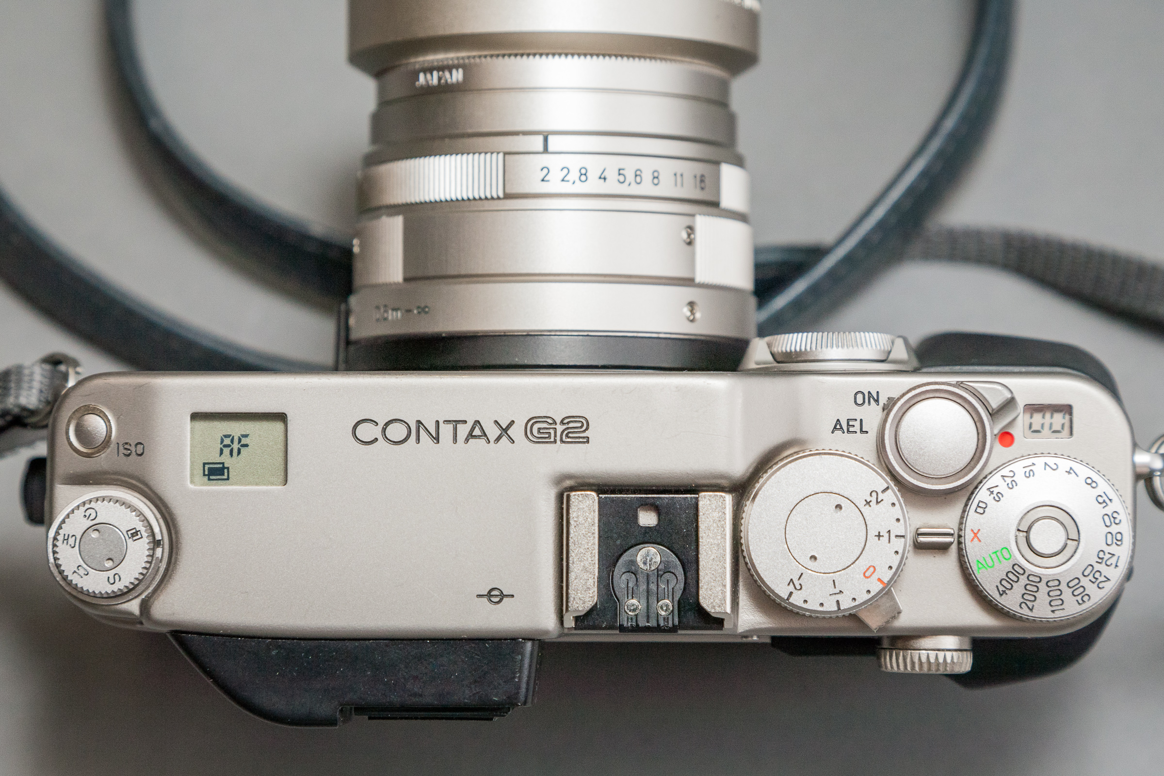 Top view of controls on Contax G2 35mm rangefinder camera